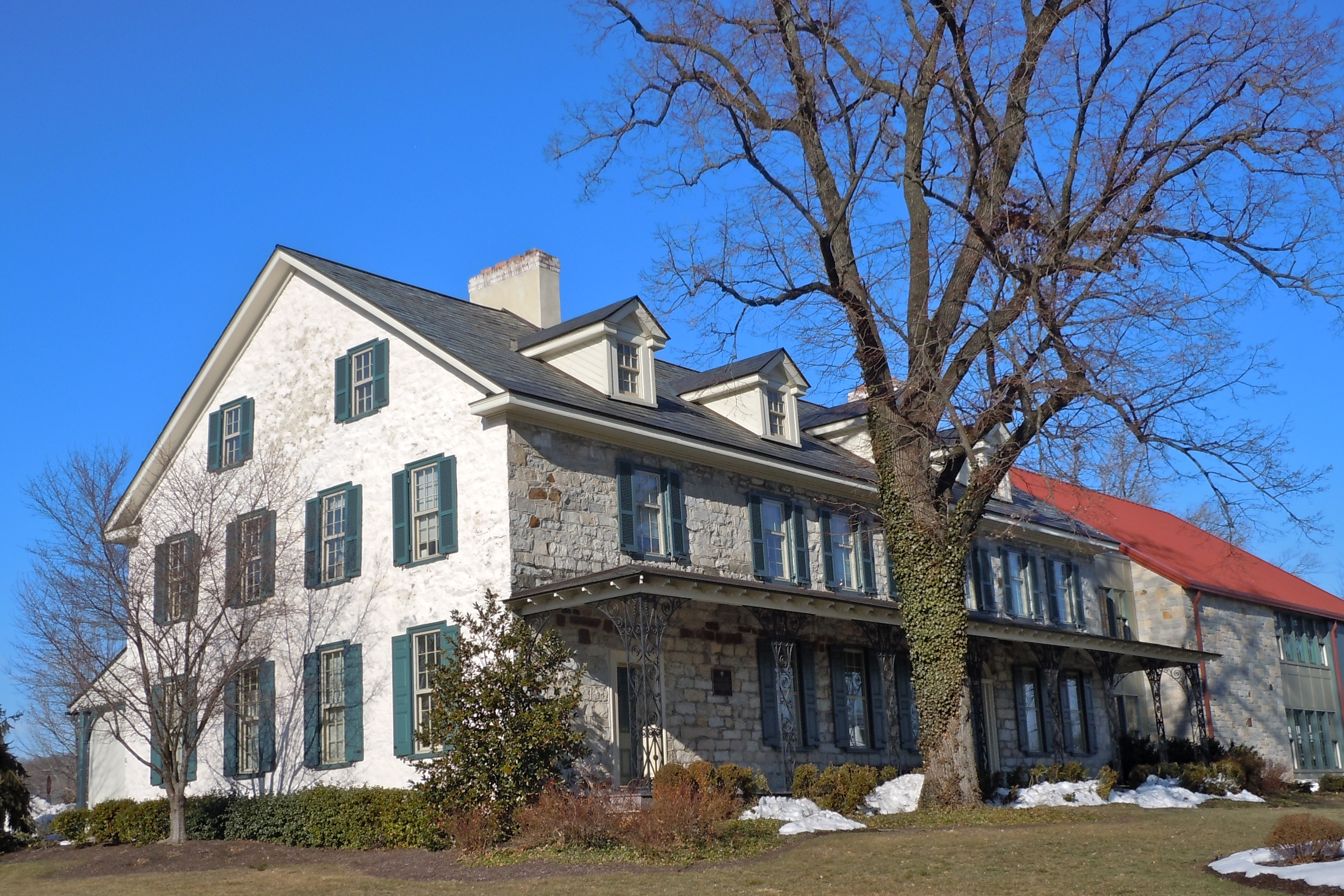 General Washington Inn on the NRHPs since August 22, 1979. At Uwchlan and East Lancaster Avenues, Downingtown, Chester County, Pennsylvania. First Post Office in the county in 1796. Built in the 1750s as the King in Arms Inn. On US 30.